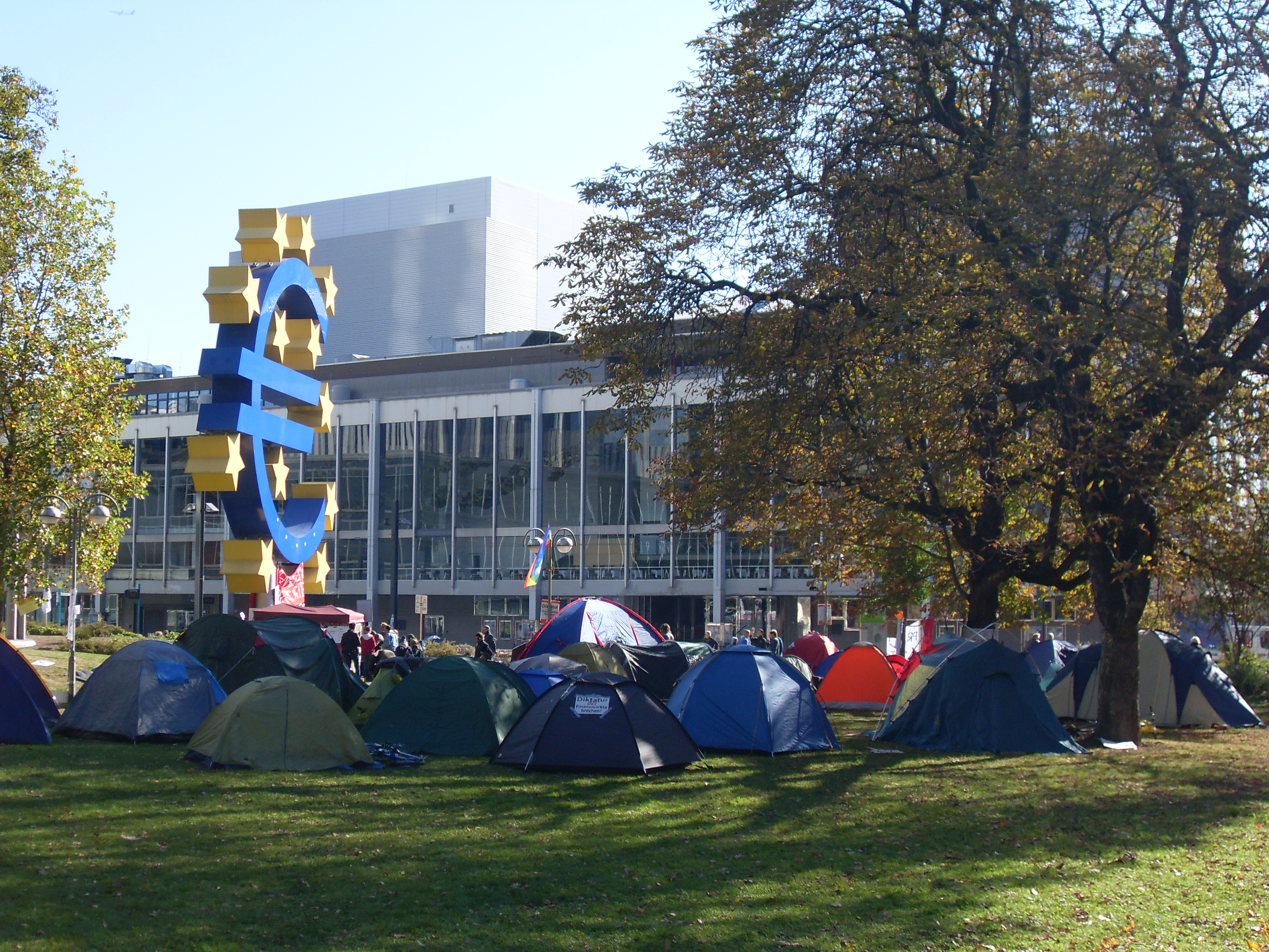 „Occupy Frankfurt“: tents in front of the European Central Bank in Frankfurt am Main, 16th October 2011